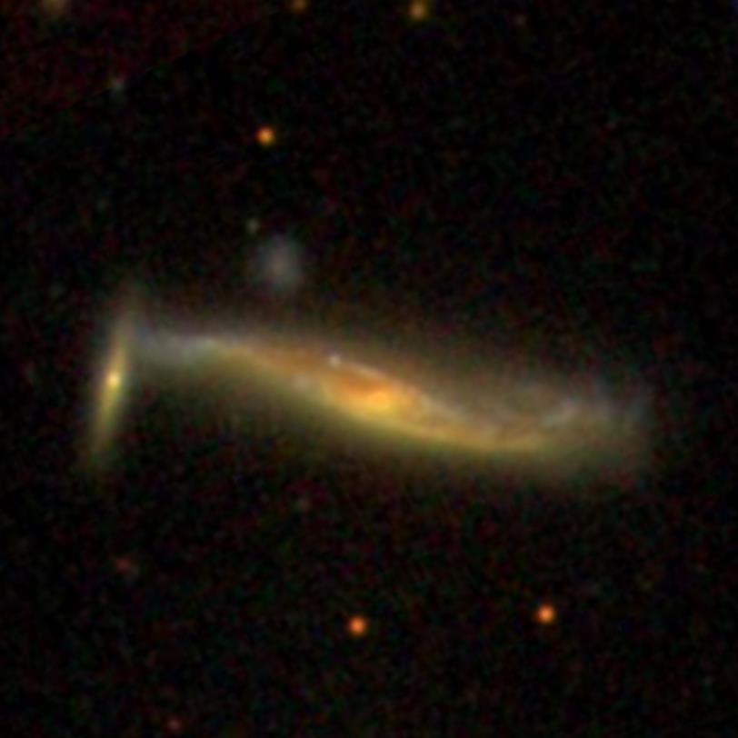 SDSS image of NGC 6045. The small, nearby galaxy at left portion of the image is PGC 84720.